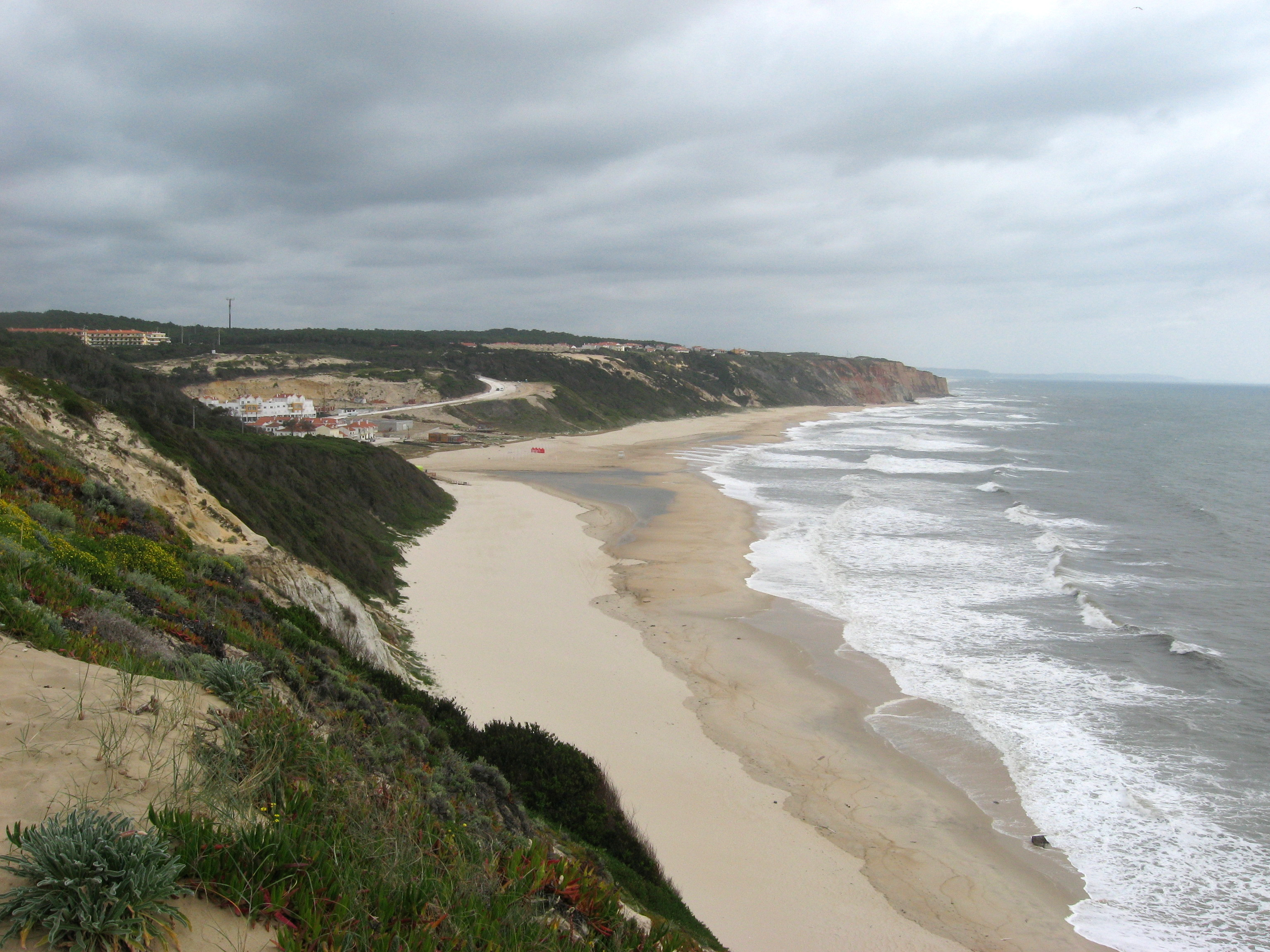 Alcobaça, Portugal, Mosteiro de Alcobaça, Coutos de Alcobaça, old city of Paredes da Vitória, bay wehre former harbour was situated, disappeared until 1542